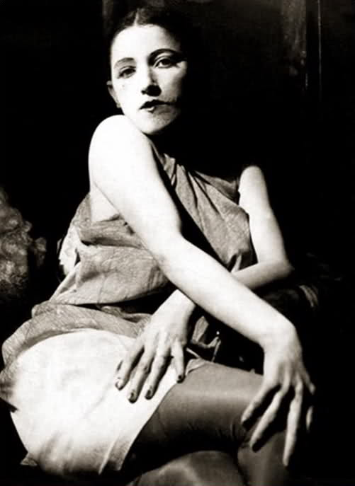 Barbara sitting in chair 2